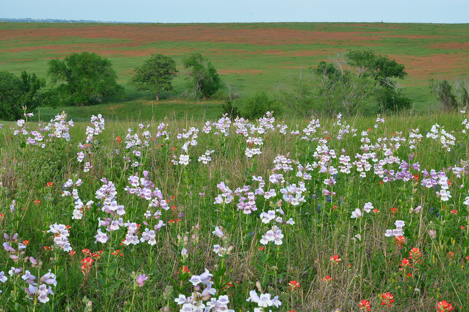 Fox Glove (Penstemon cobaea) white flowers in the foreground, and Indian Paintbrush (Castilleja indivisa) red flowers in the background, growing on ranch and pastureland in the Blackland Prairie eco-region of Texas, County Road 269, Lavaca County, Texas, USA (29.53175°N, 97.08236°W, 114 m. elev.). This ranchland is not Blackland Prairie in an entirely pure and natural state. Photographed on 19 April 2014 by William L. Farr.